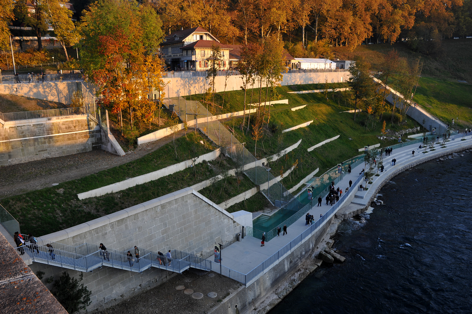 The new bear park view from Nydegg bridge; Berne, Switzerland.